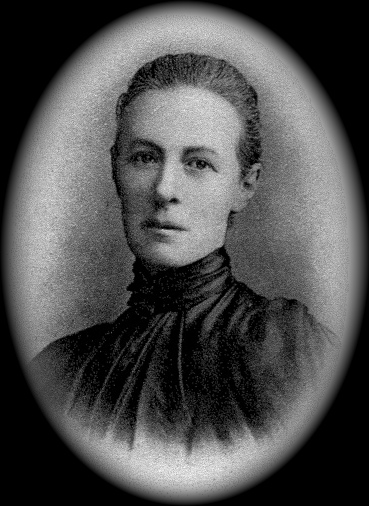 photo of Lilias Trotter (1853-1928), artist and English missionary to Algeria